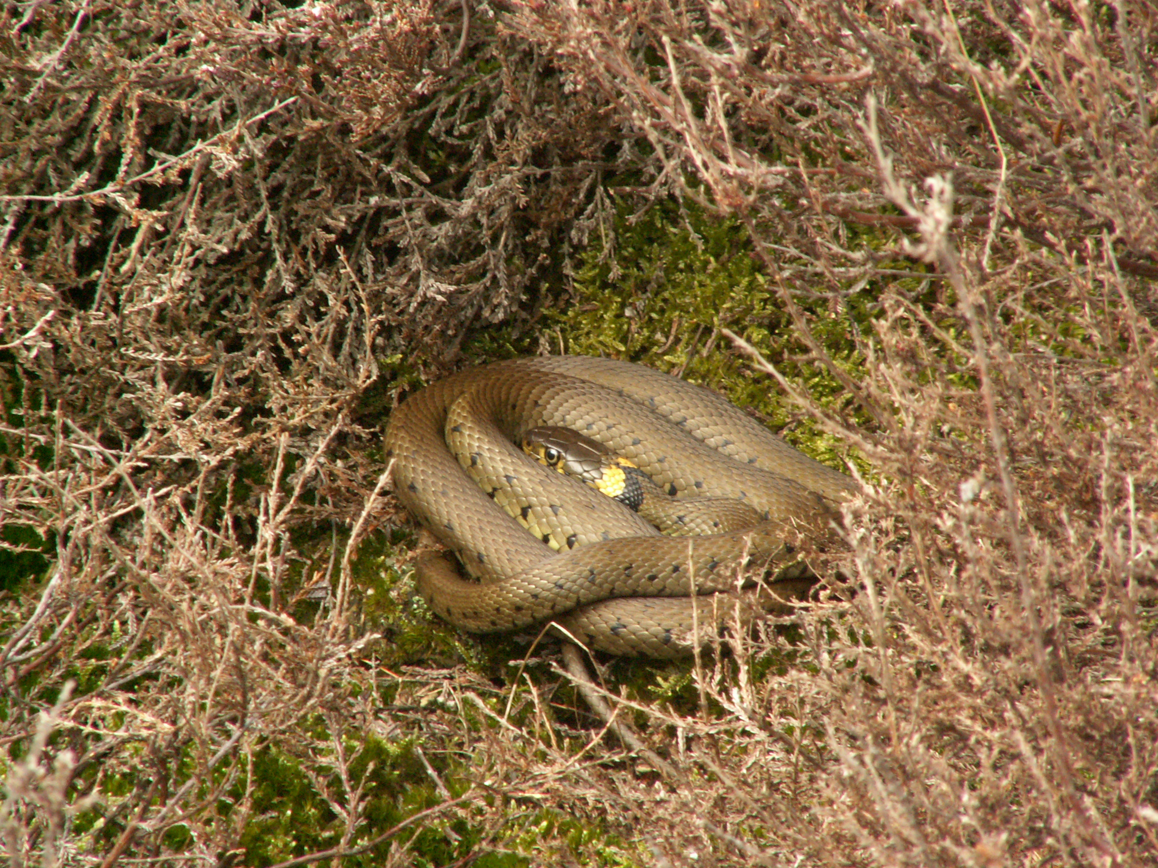 Olive coloured Natrix natrix just emerged from hibernation in heathland Southern Veluwe, The Netherlands